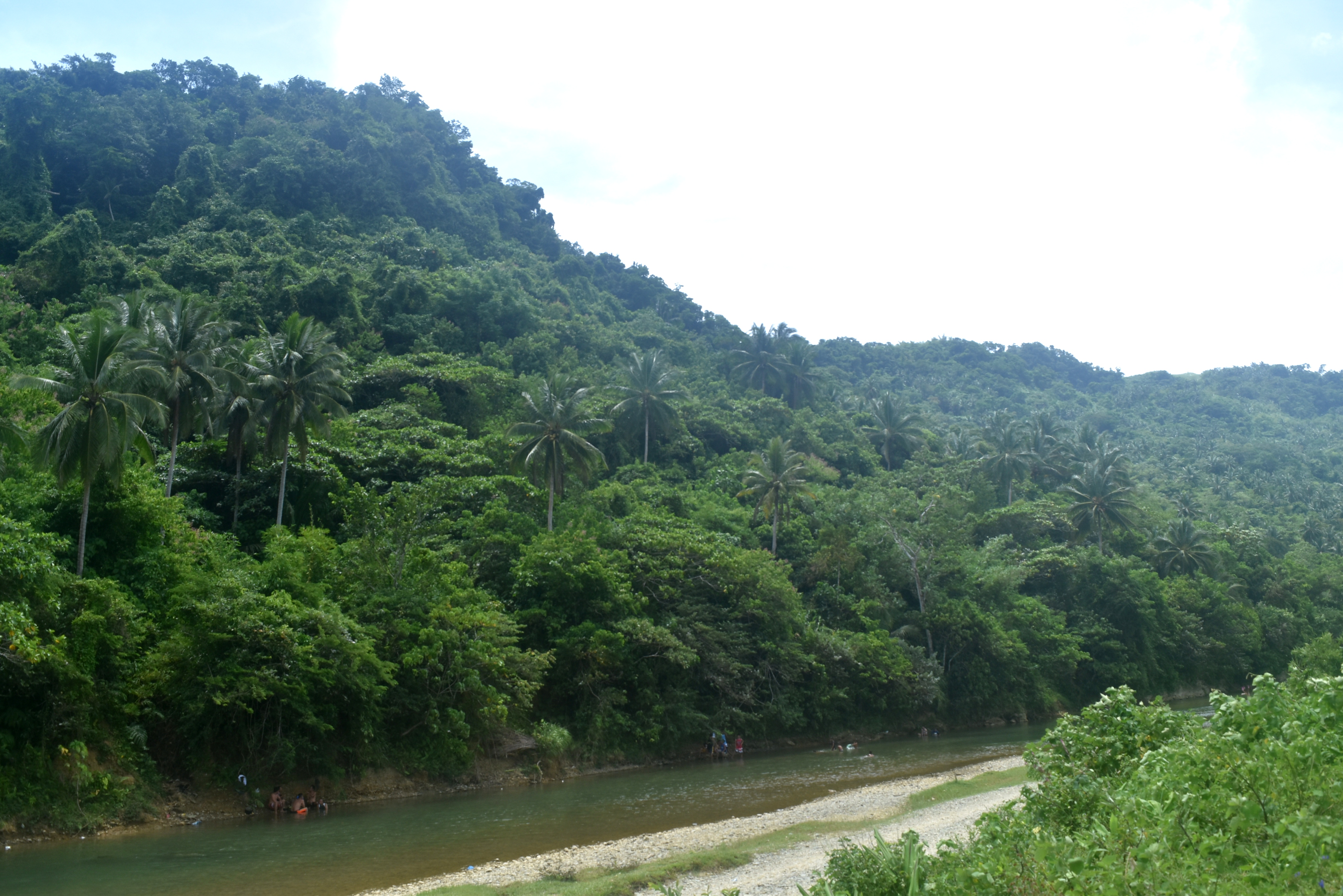 Kagiskan River, Lagonoy, Camarines Sur